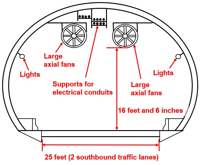 WASHINGTON (May 1, 2018) — This National Transportation Safety Board graphic depicts the cross section of the Pennsylvania Turnpike's Lehigh Tunnel #2. A 10-foot-long section of electrical conduit that had broken away from its attachment points penetrated the windshield of a southbound semitractor-trailer Feb. 21, 2018, killing the 70-year-old driver. (NTSB graphic by Dan Walsh)